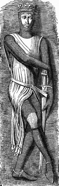 Robert Curthose